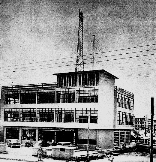 Ryukyu Police building